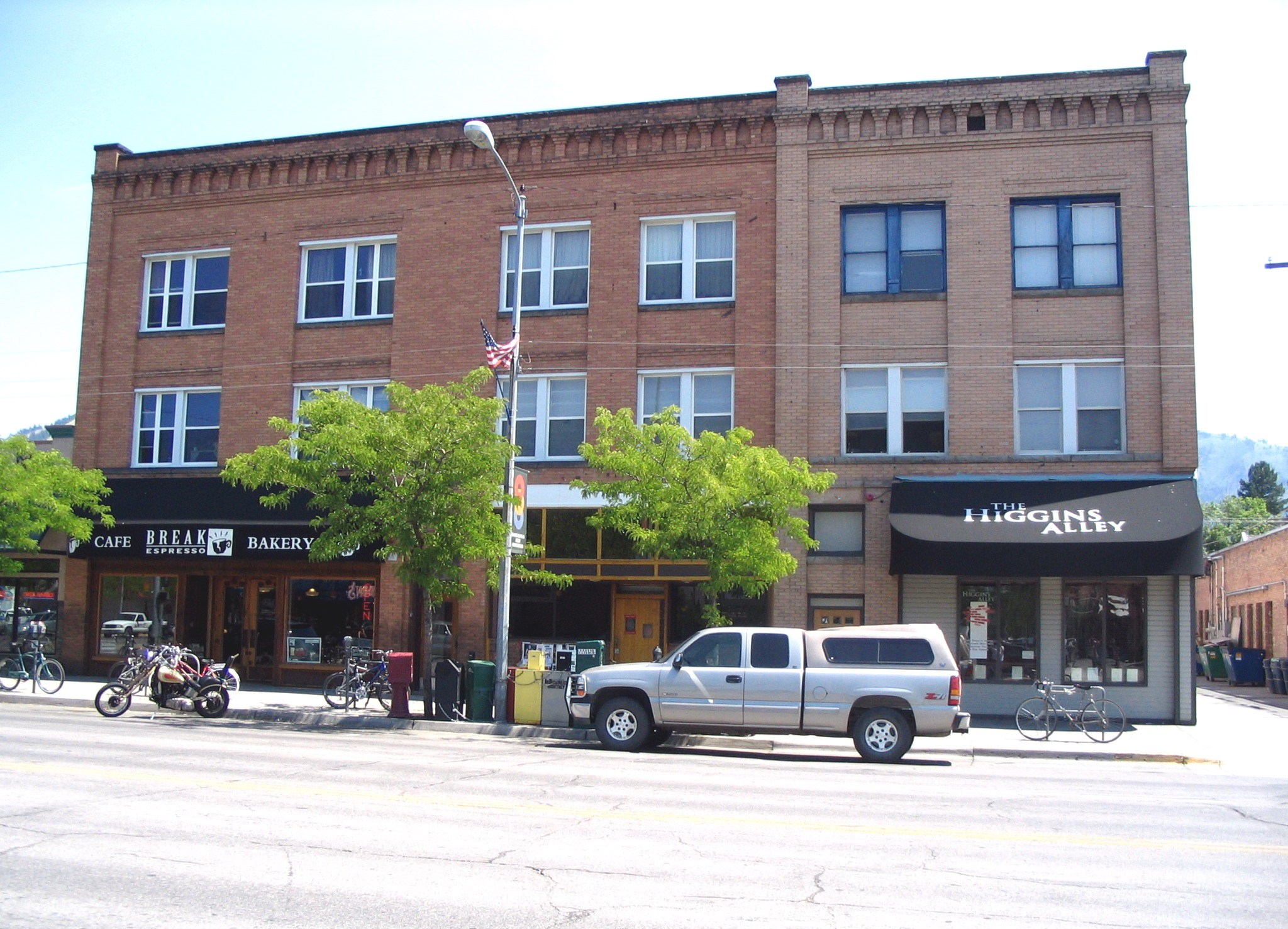 The Belmont and Victoria Hotel Buildings at 430 N. Higgins Ave. in Missoula, MT. It is listed on the National Register.